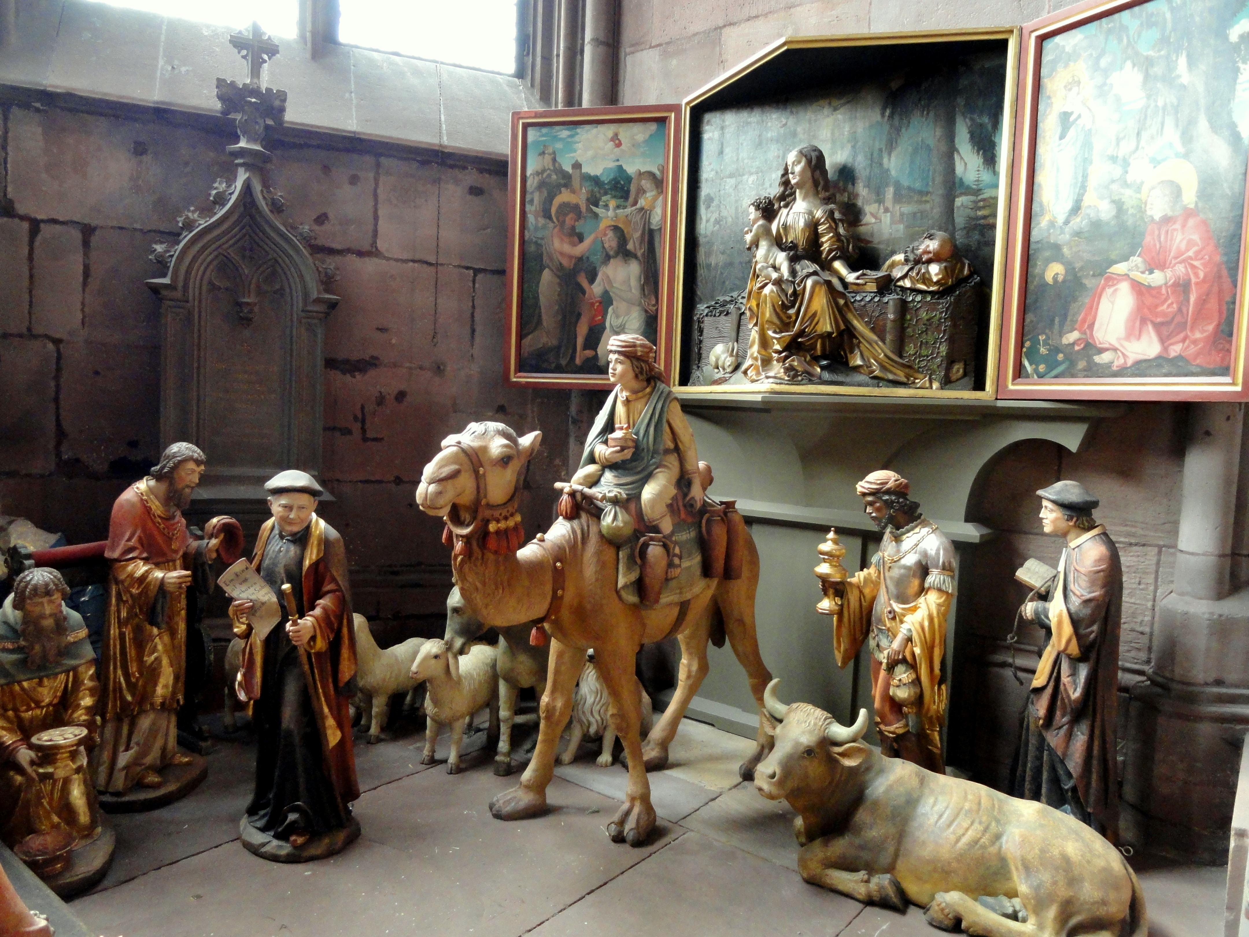 St. John the Baptist altar of Freiburg Minster, Freiburg im Breisgau, Baden-Württemberg, Germany.